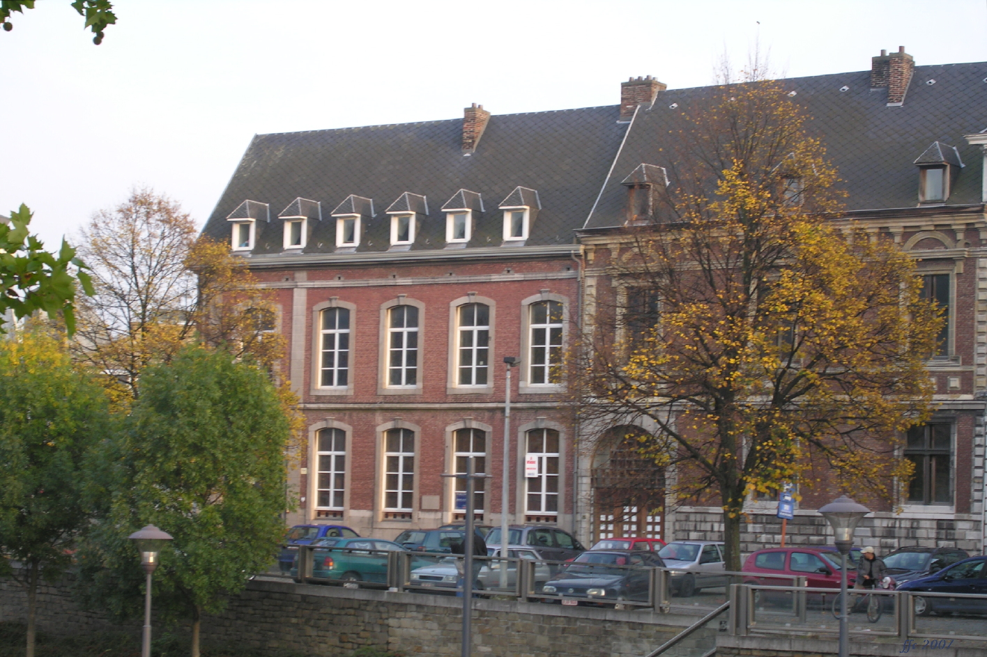 Birth home of César Franck